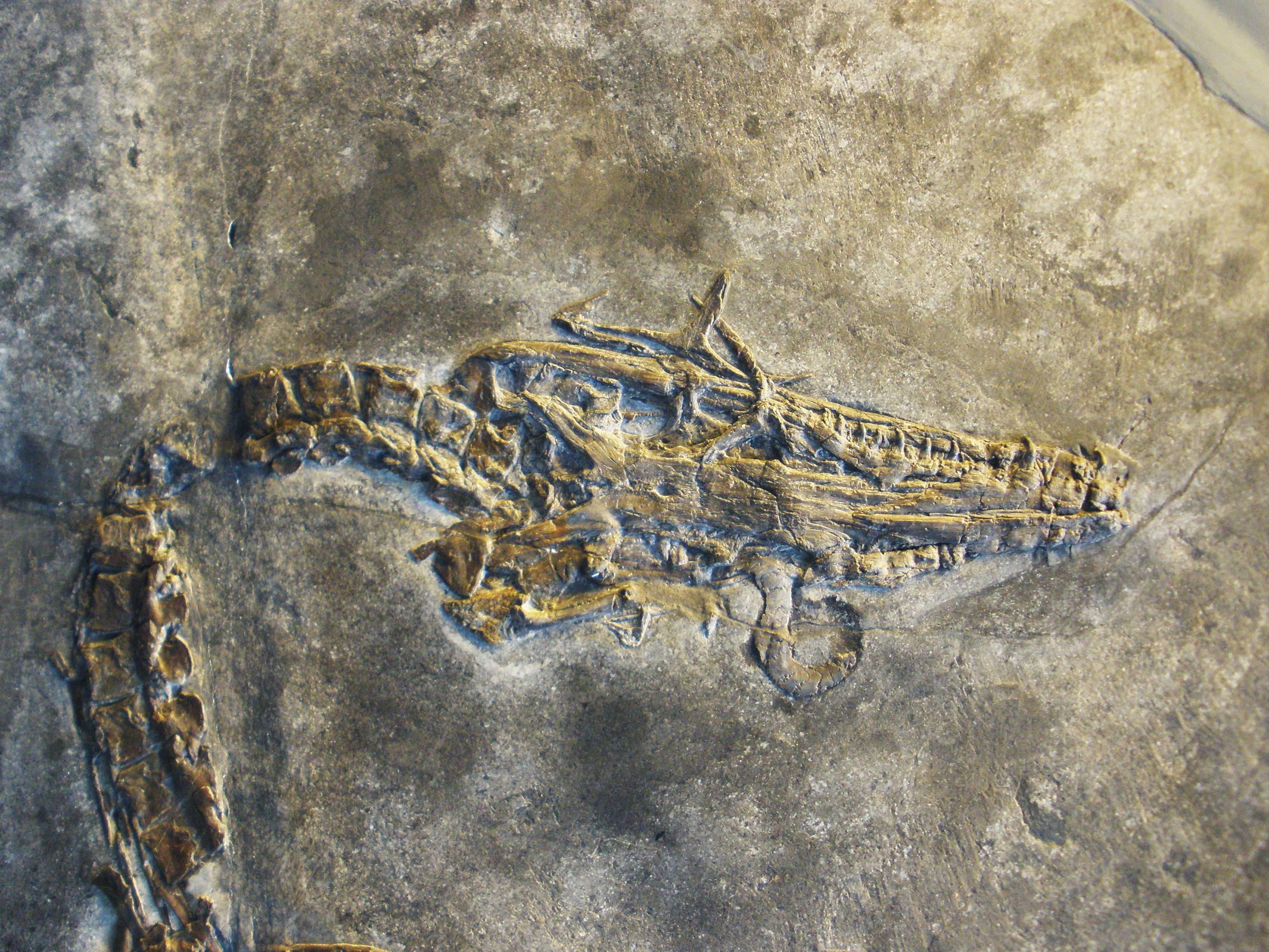 fossil Askeptosaurus